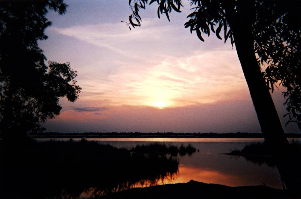 Sunset over river Ganges in Mayapur, West Bengal